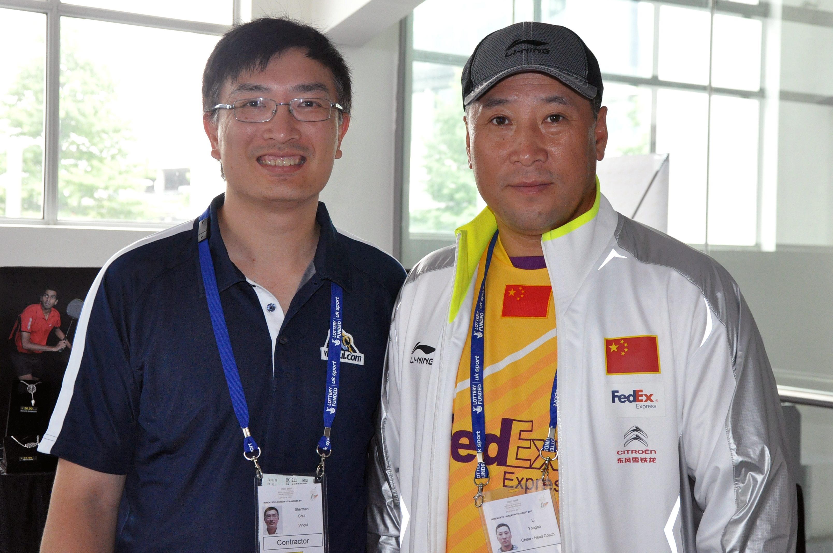 Vinqui's Sherman Chui with China's Head Coach and badminton great, Li Yongbo.